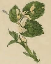 Stainton’s Natural History of the Tineina (1855–1873): Coleophora gryphipennella mined rose leaf with a case attached